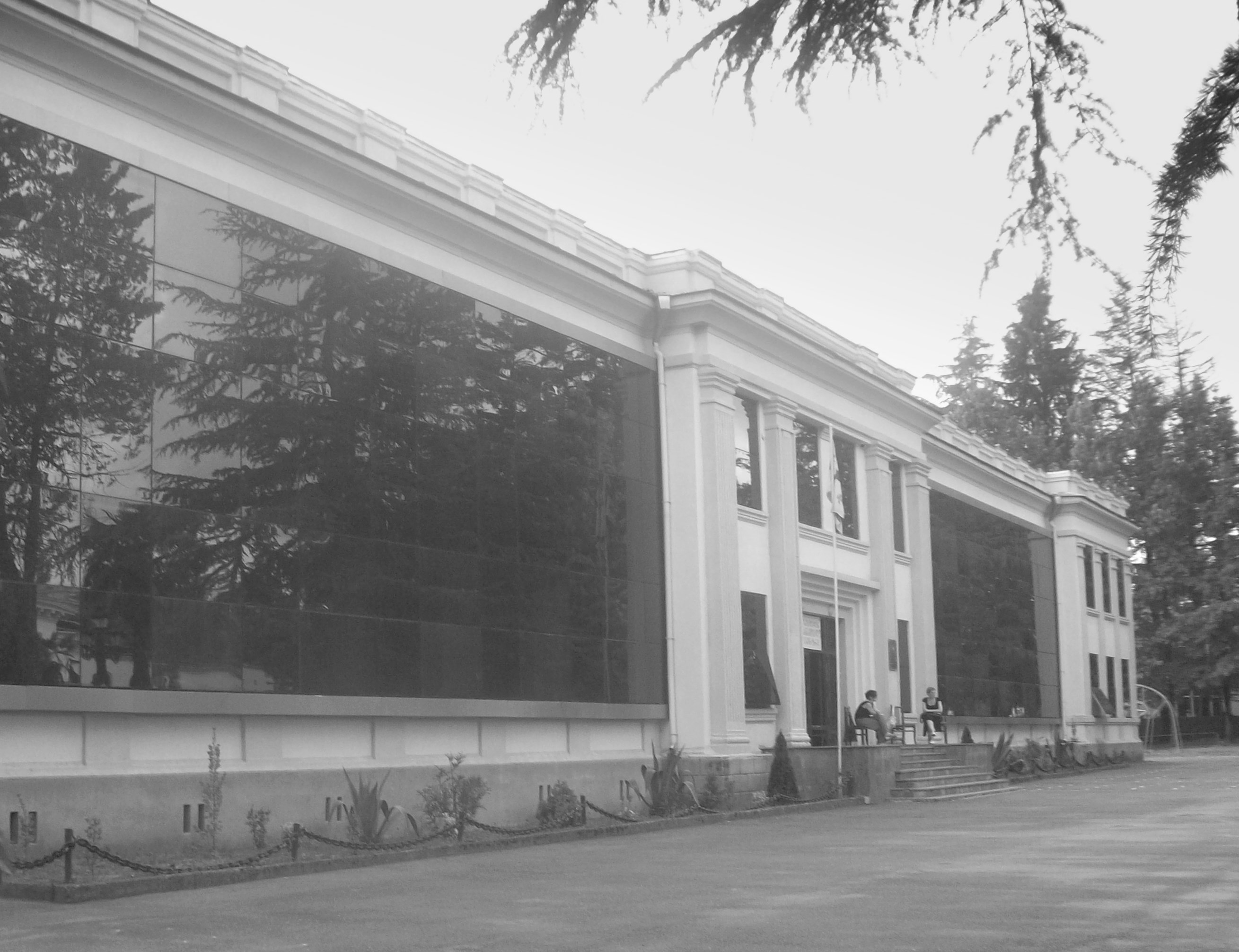 Second public school in zugdidi